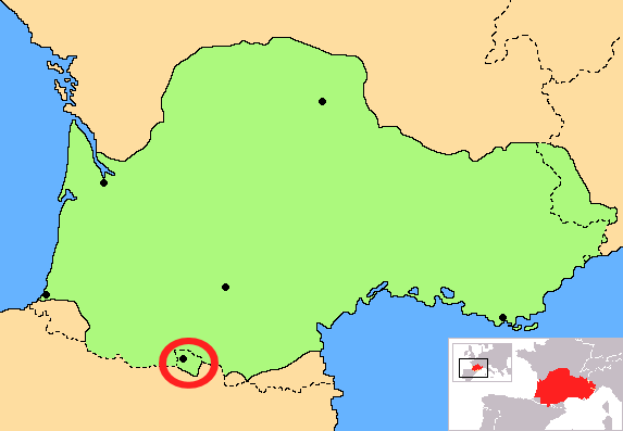 Aranese area map, Occitan language, with geographic context and remarking of the country borders